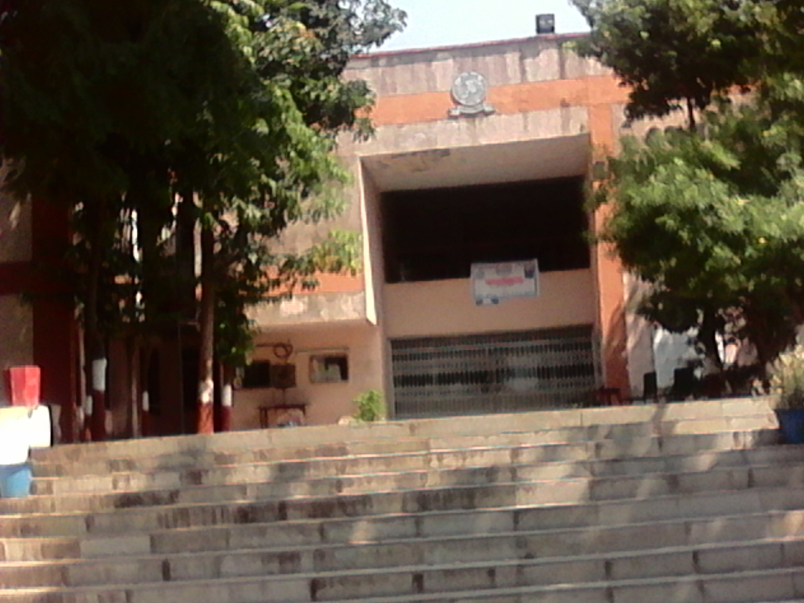 Government Engineering College Modasa